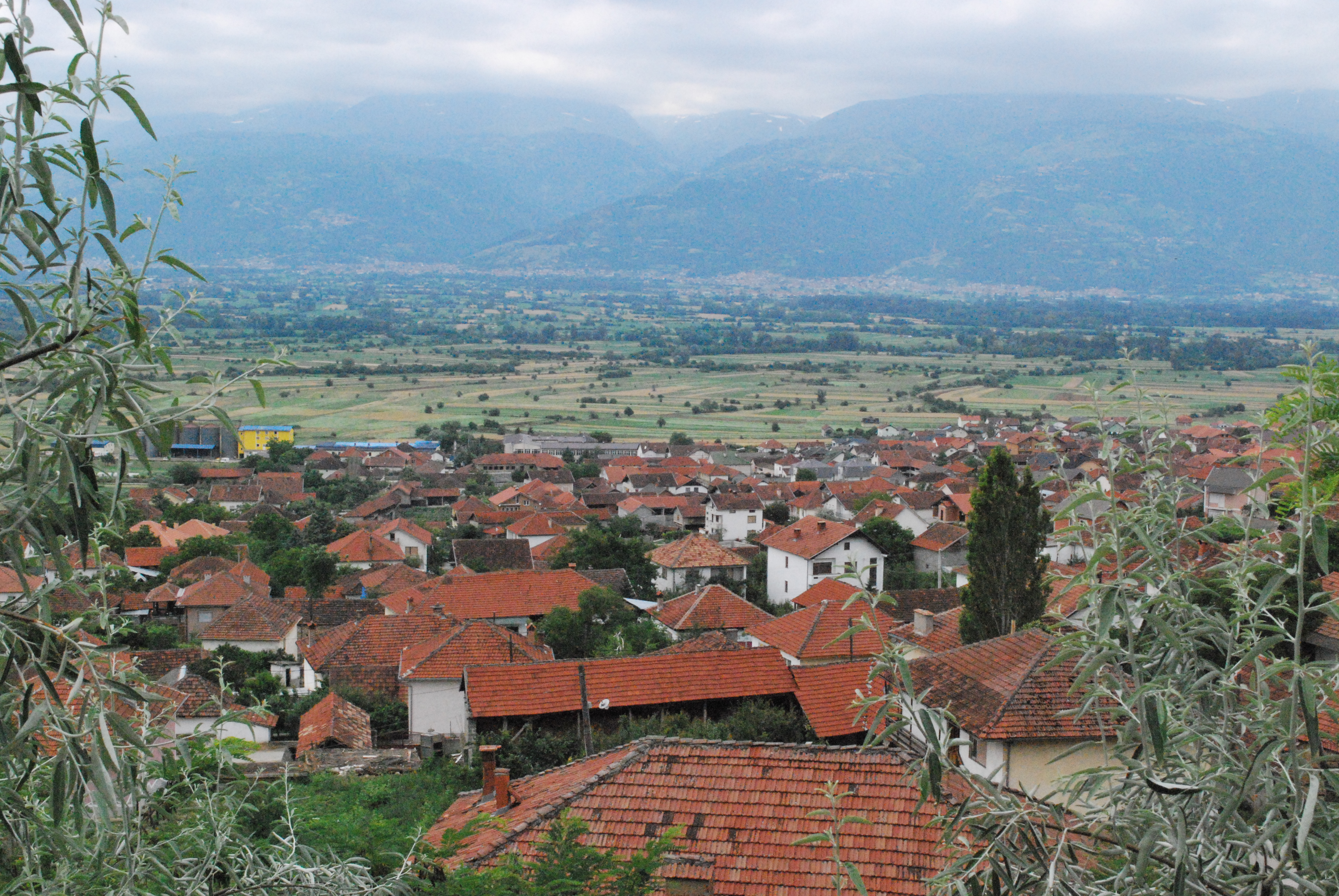 Village of Čelopek, near Tetovo, Macedonia